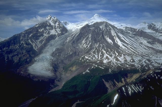 Mount Spurr, Alaska; picture from US Geological Survey